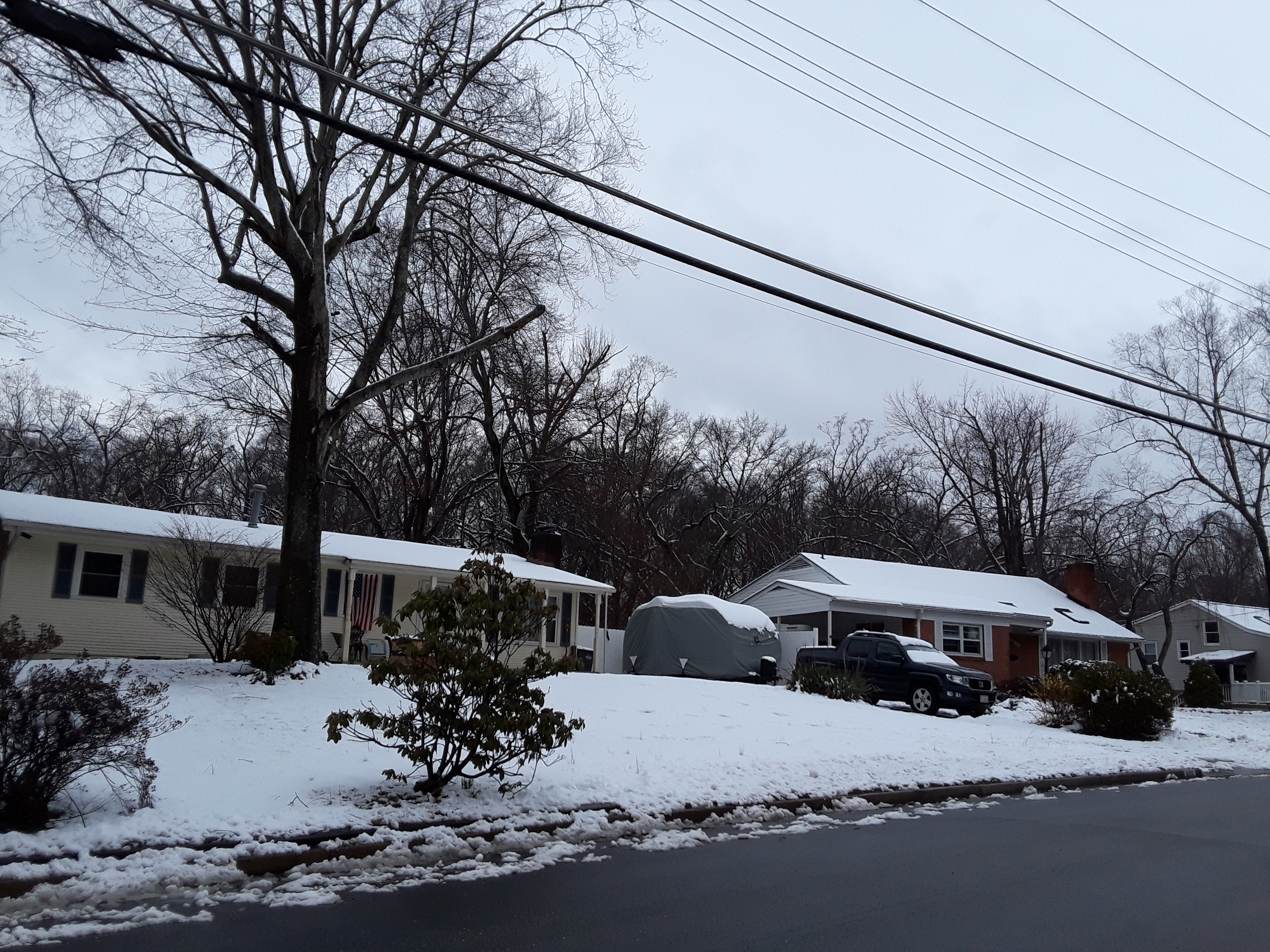 Fairfax County during the March 21, 2018 nor'easter which struck the Washington, DC area.